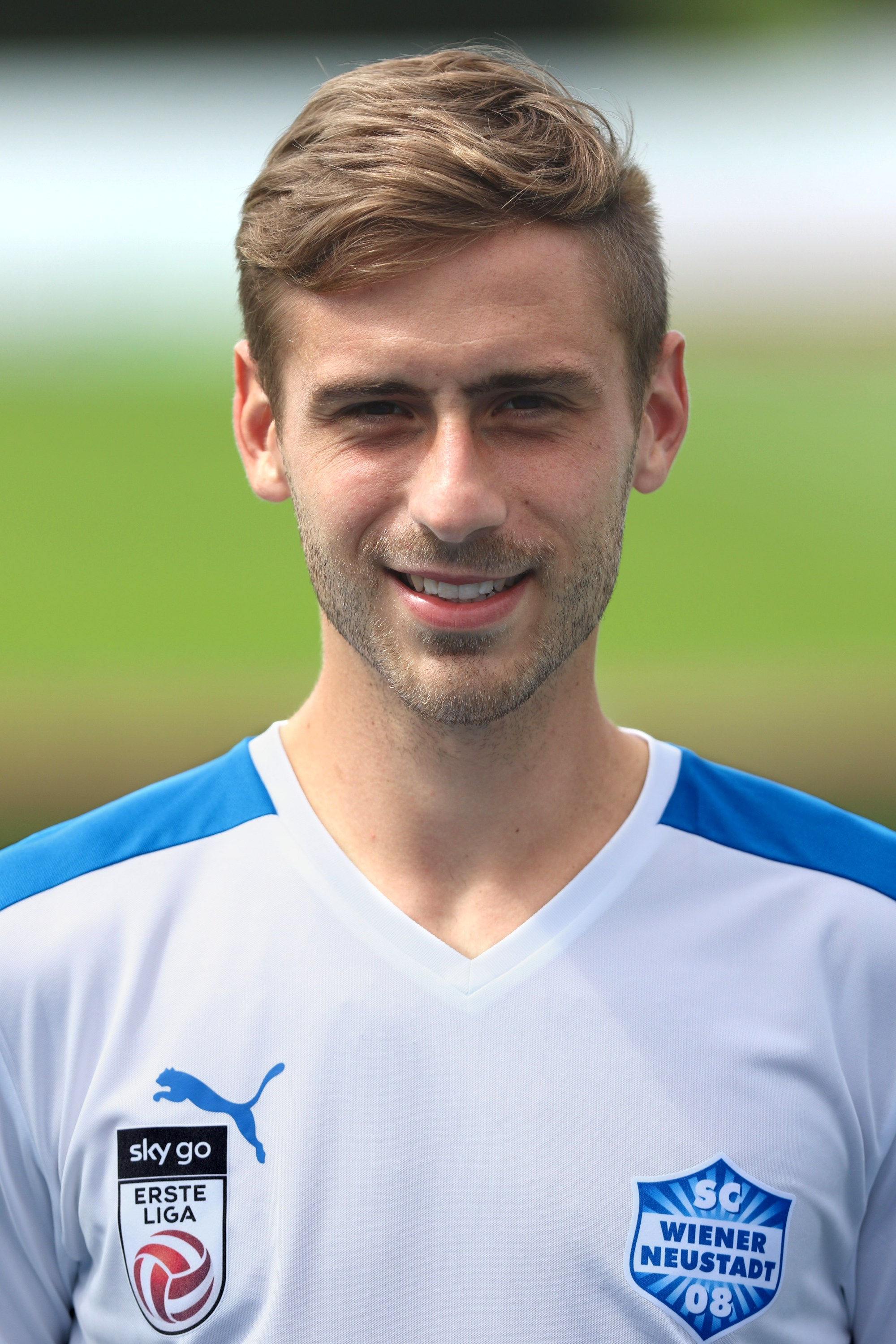 SC Wiener Neustadt squad presentation summer 2017. – The photo shows Remo Mally.